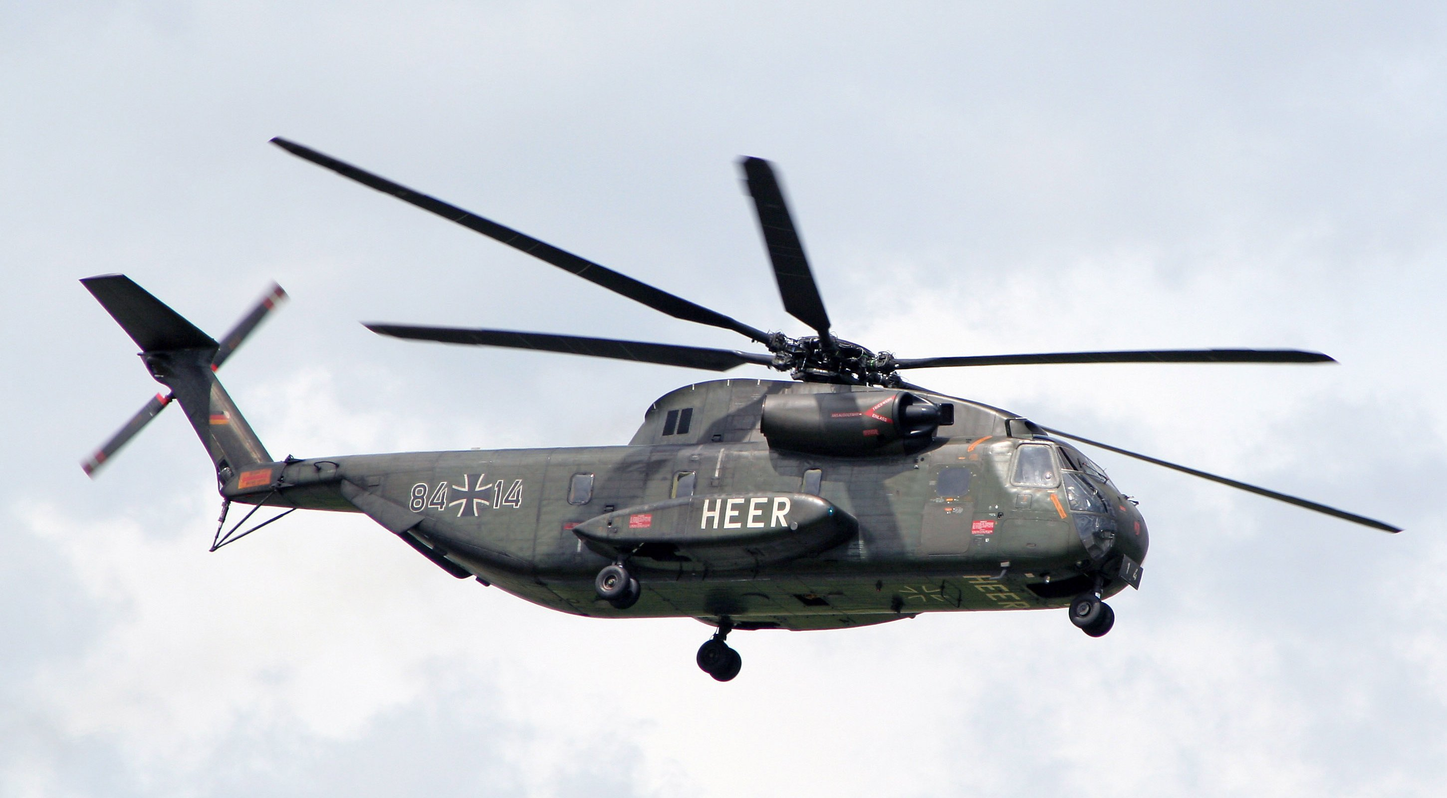 CH-53 at ILA 2006 in Berlin